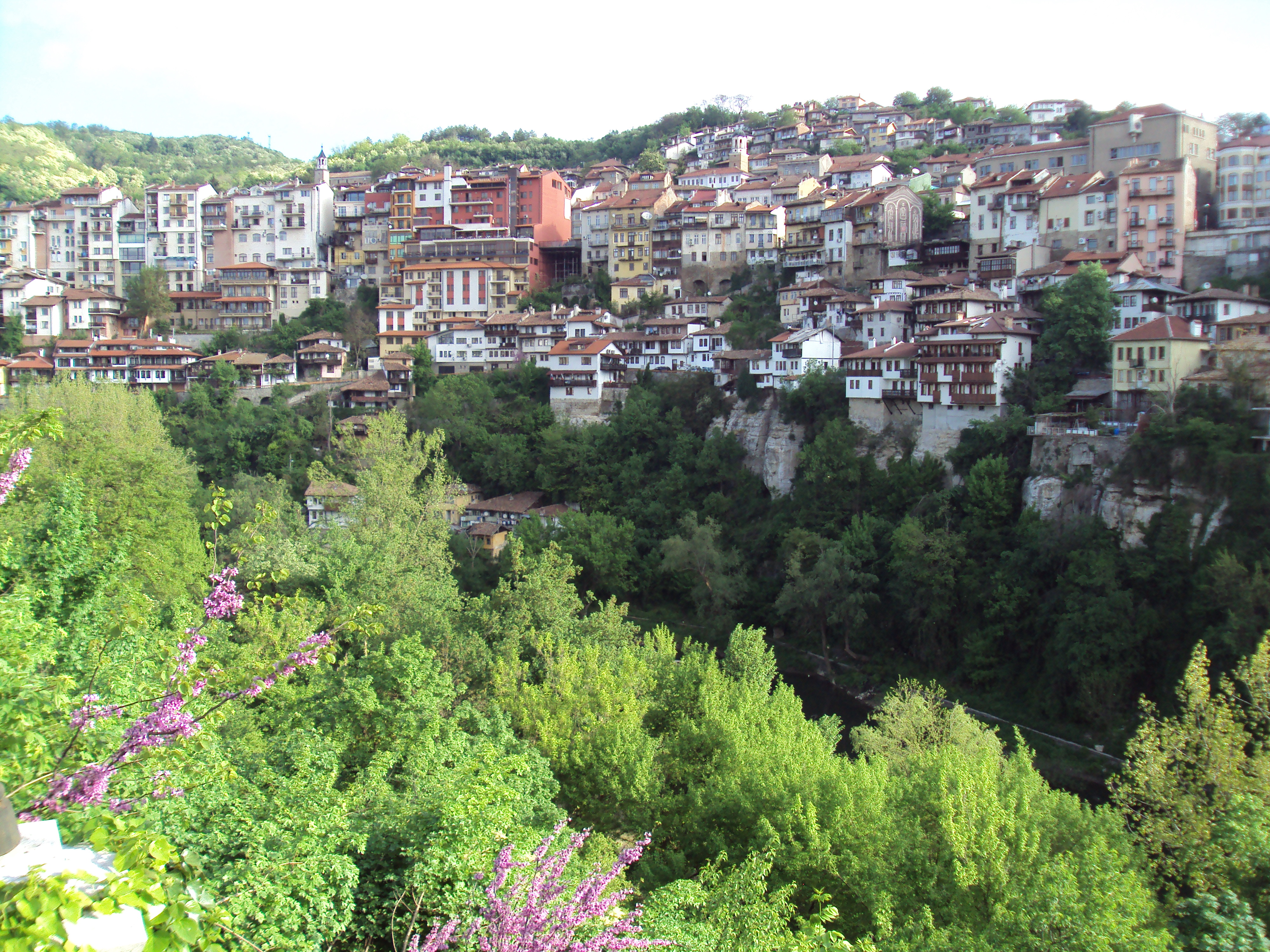 Veliko Tarnovo